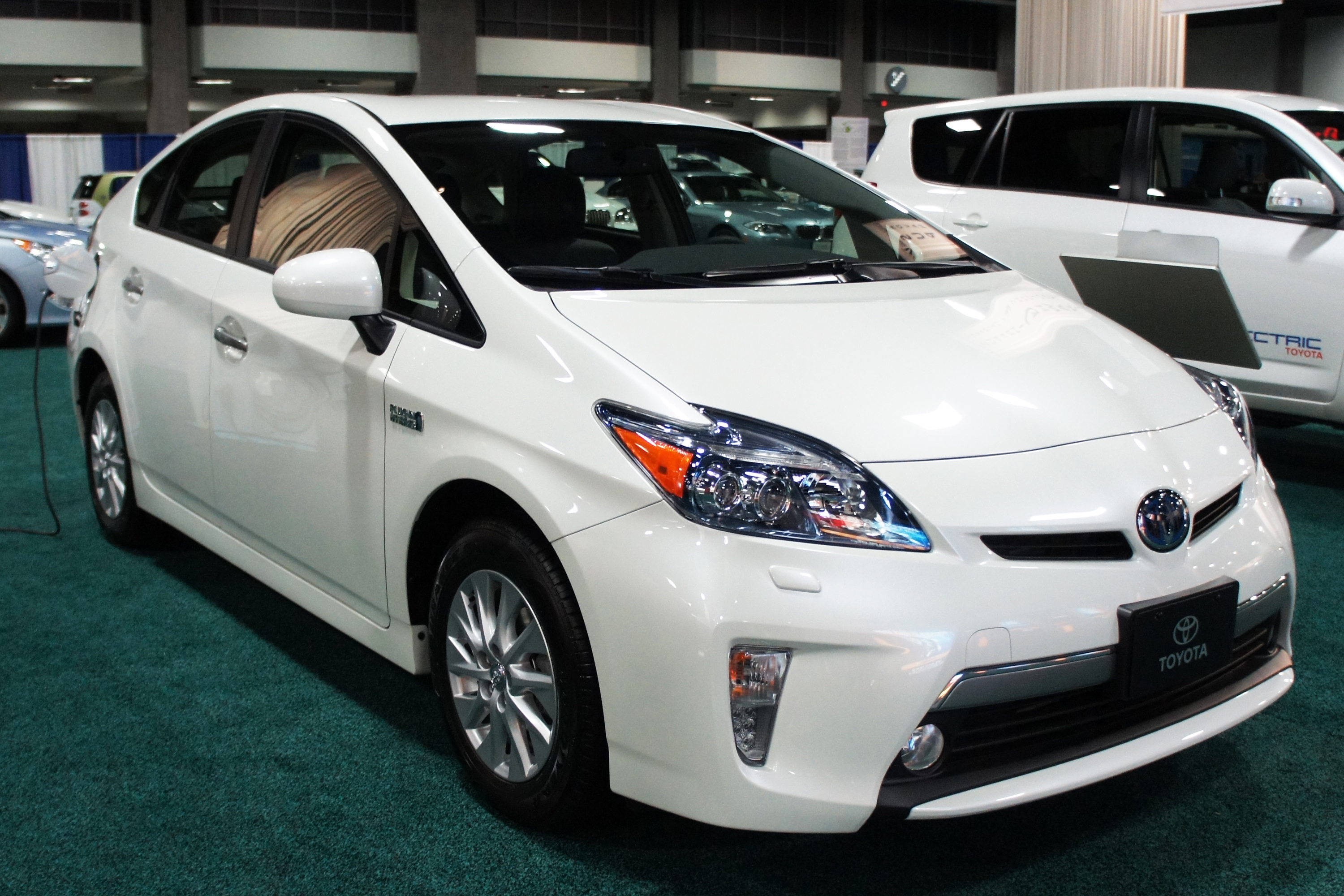 2012 Toyota Prius Plug-in Hybrid at the 2012 Washington Auto Show, District of Columbia.